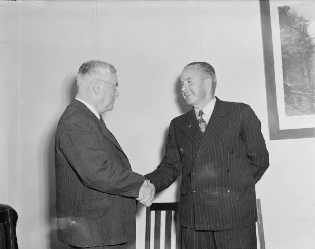 Walter Nash and Clarence "Jerry" Skinner, congratulating each other after being elected leader and deputy-leader of the Labour Party respectively.